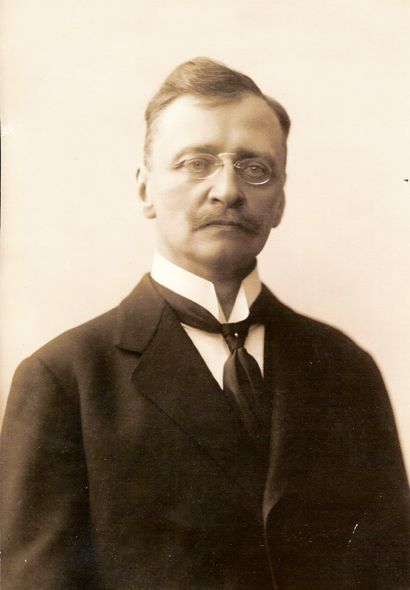 Axel Herrlin, (1870-1937), Swedish philosopher and professor at Lund University, Sweden.